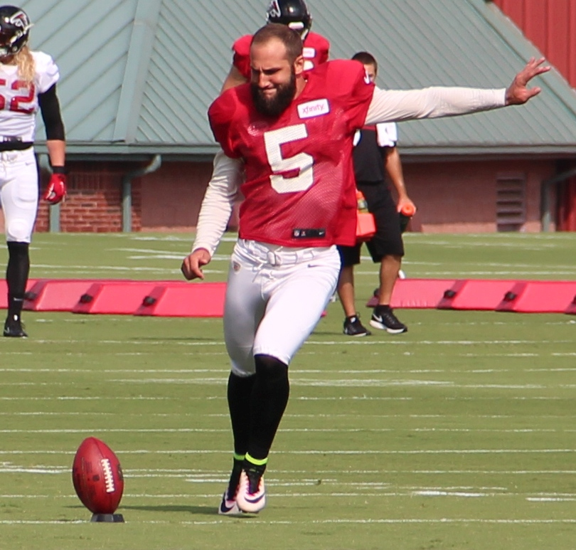 Matt Bosher at training camp, 2016